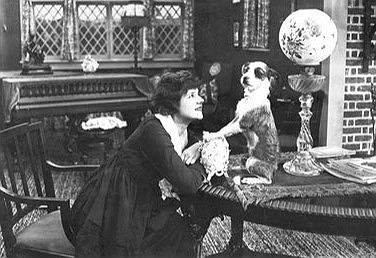 Photo of Gladys Hulette and Panthus in Prudence the Pirate from the October 21, 1916 issue of Moving Picture World.